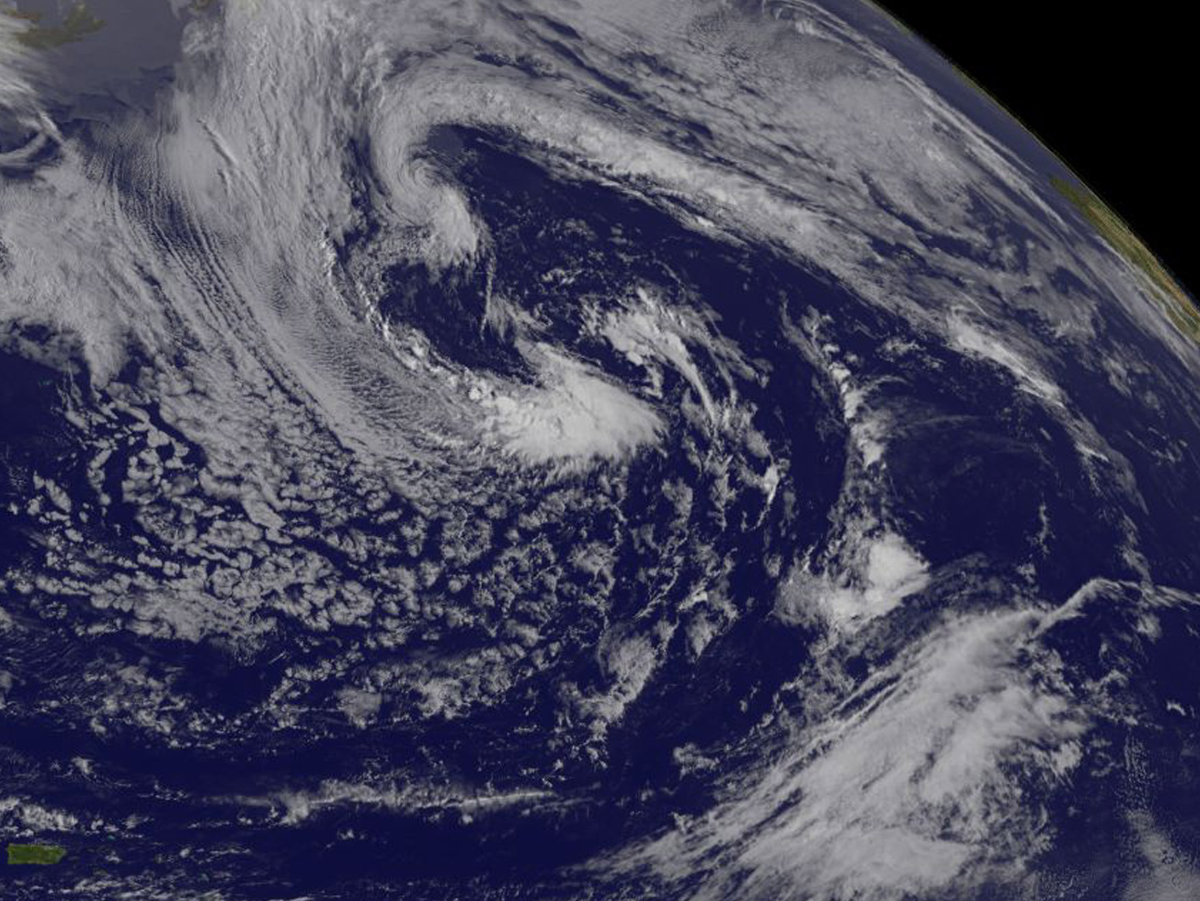 GOES-East satellite captured this visible image of Tropical Storm Arlene on April 21 at 1145 UTC (7:45 a.m. EDT).